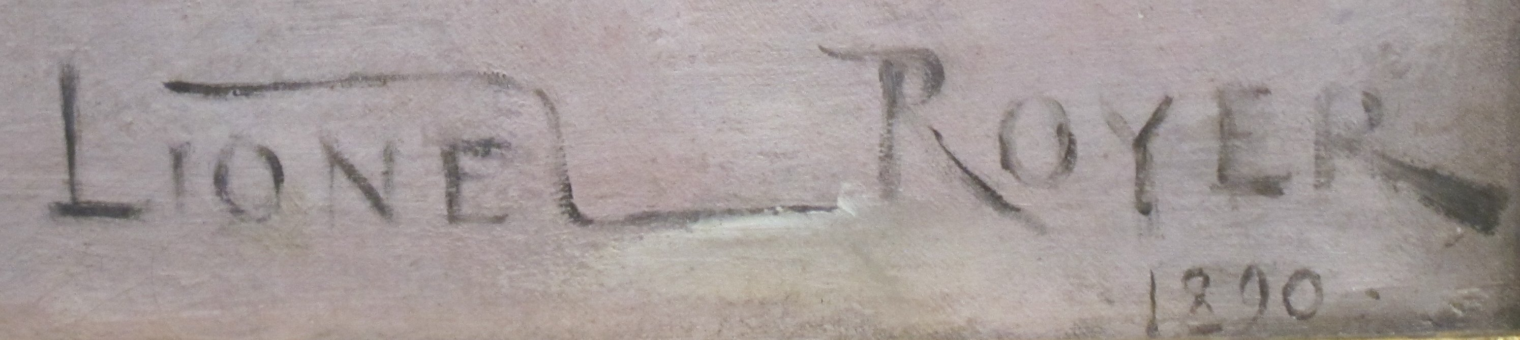 Signature of the French painter Lionel-Noël Royer, 1890